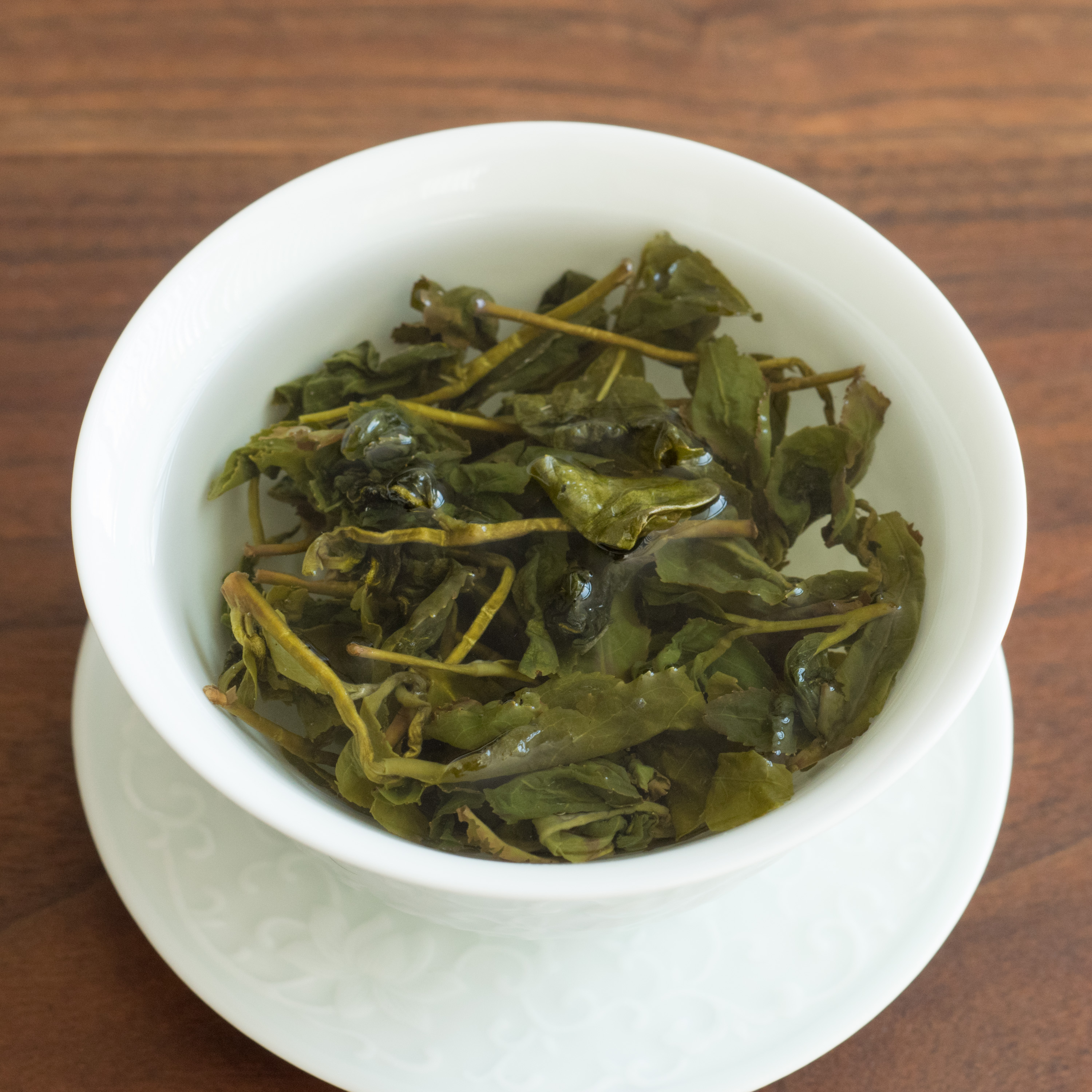 2017 Jin Xuan (Golden Lily) oolong tea being steeped in a pale green gaiwan.